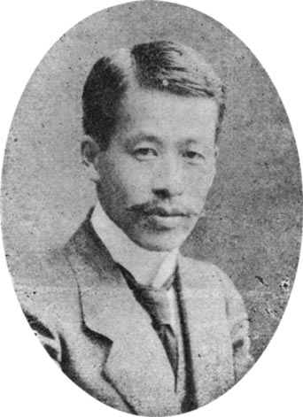 Mr. Sakuki Haruyama.